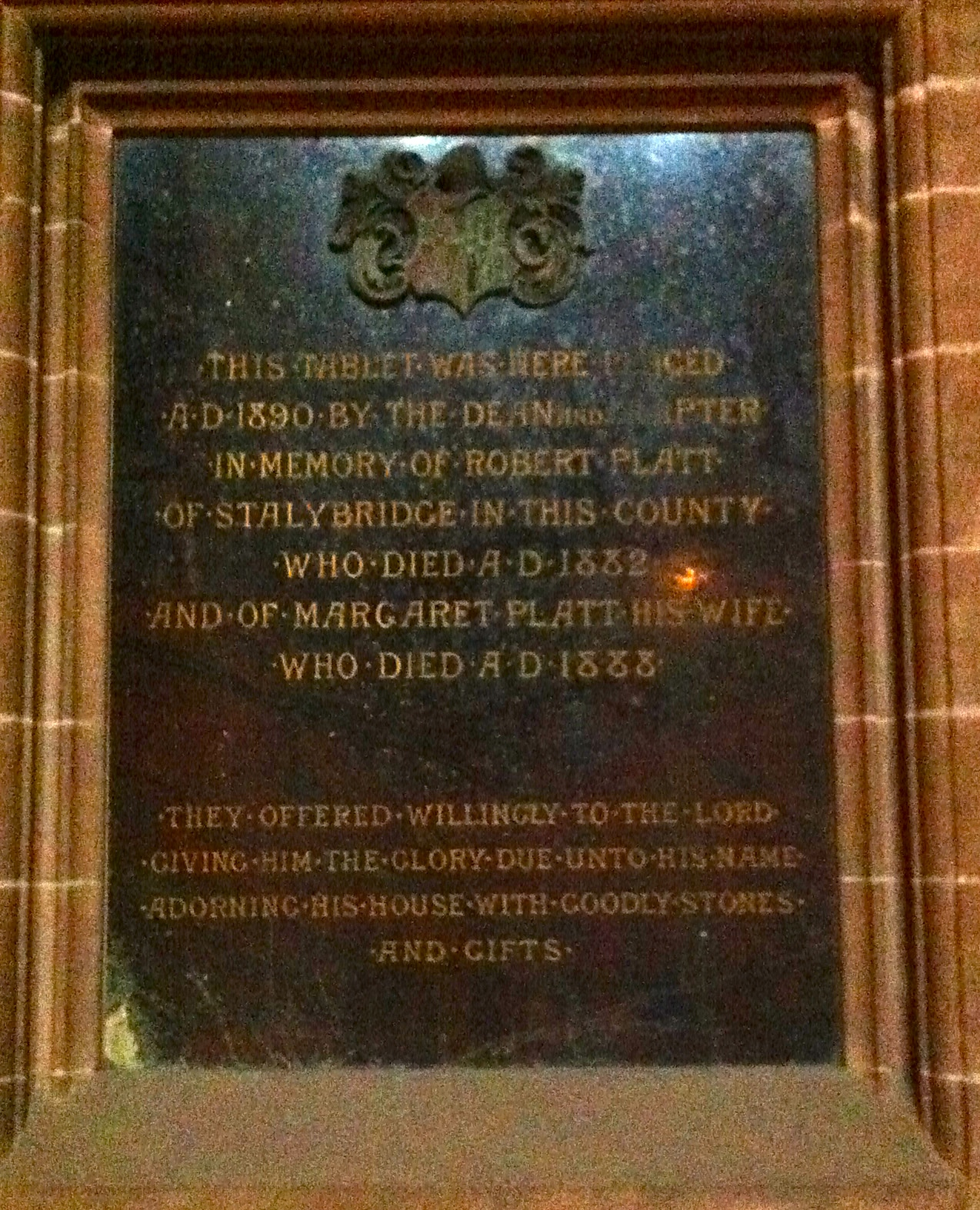 Memorial to Robert Platt, died 1882, and Margaret Platt, died 1888.